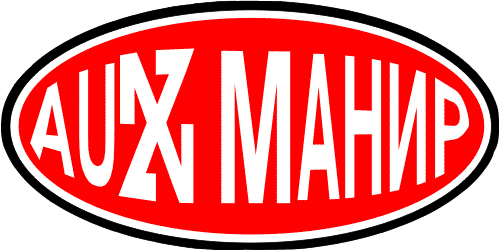 Description: Art group logo. Designed by use of computer. Digatal sign built of two words. French word AUX, typed in Latin and Serbian word MANIR, typed in Cyrillic. Date: creeated May 2002 Author: Slobodan Sajin AUX MANIR Slobodan Sajin 20:13, 7 September 2006 (UTC)AuxManir